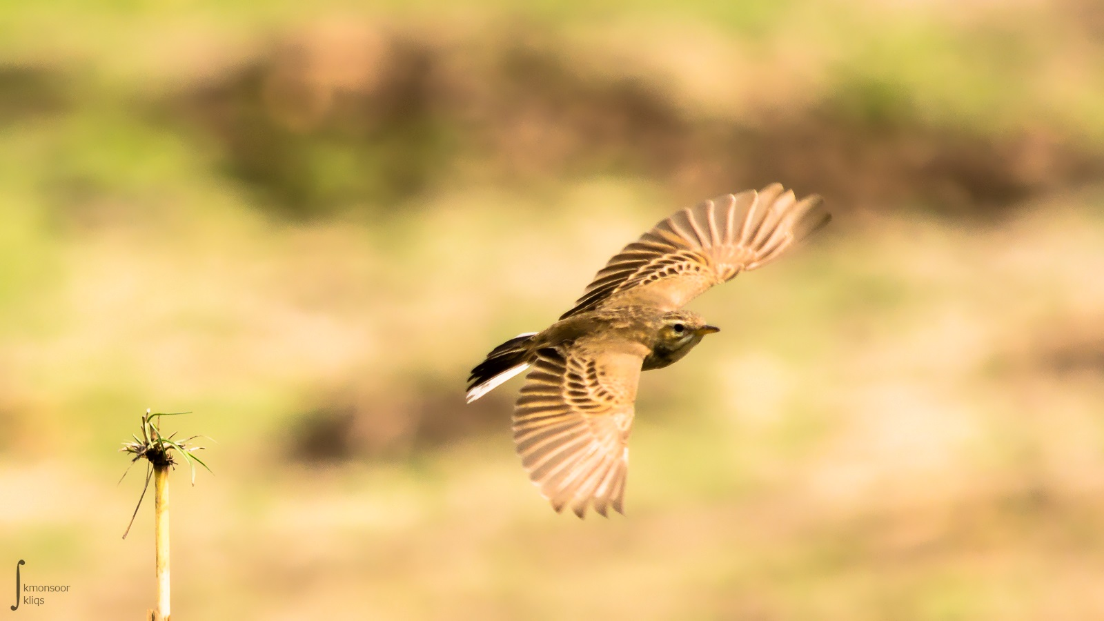 "Paddyfield pipit" seen near Dhaka, Bangladesh in February, 2015.